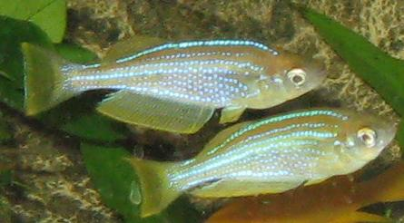 Two male Lamprichthys_tanganicanus